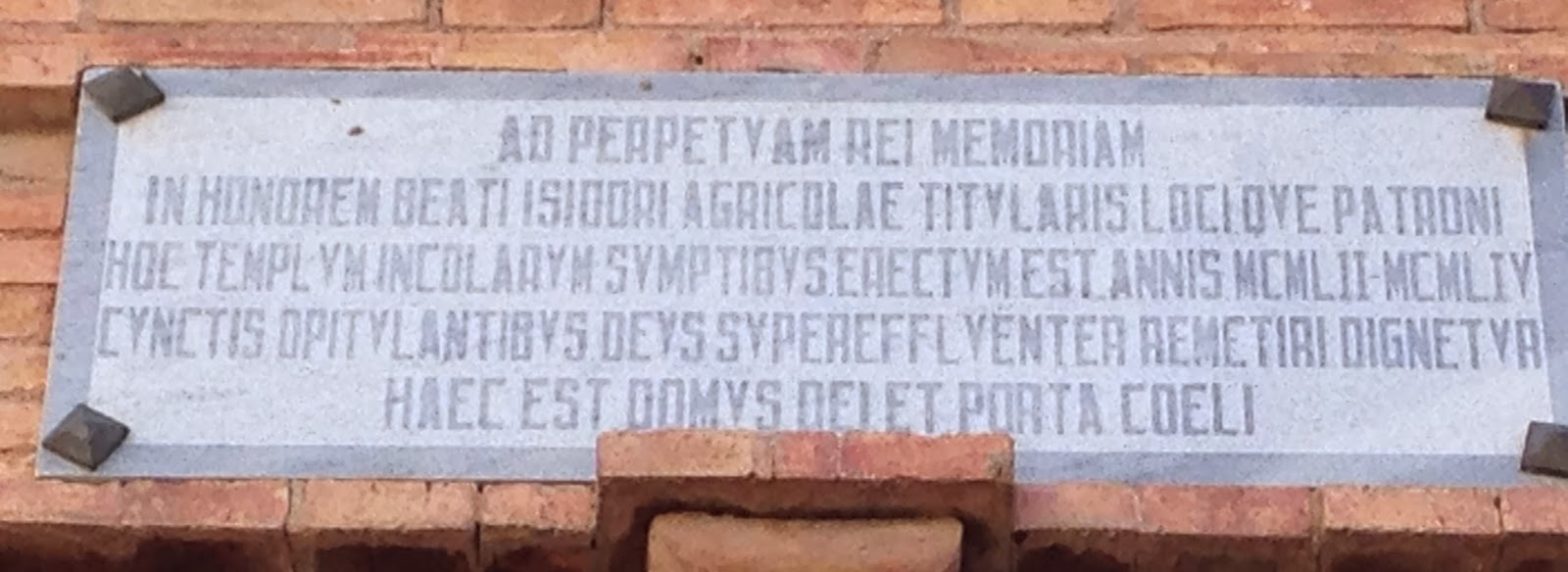 Placa conmemorativa